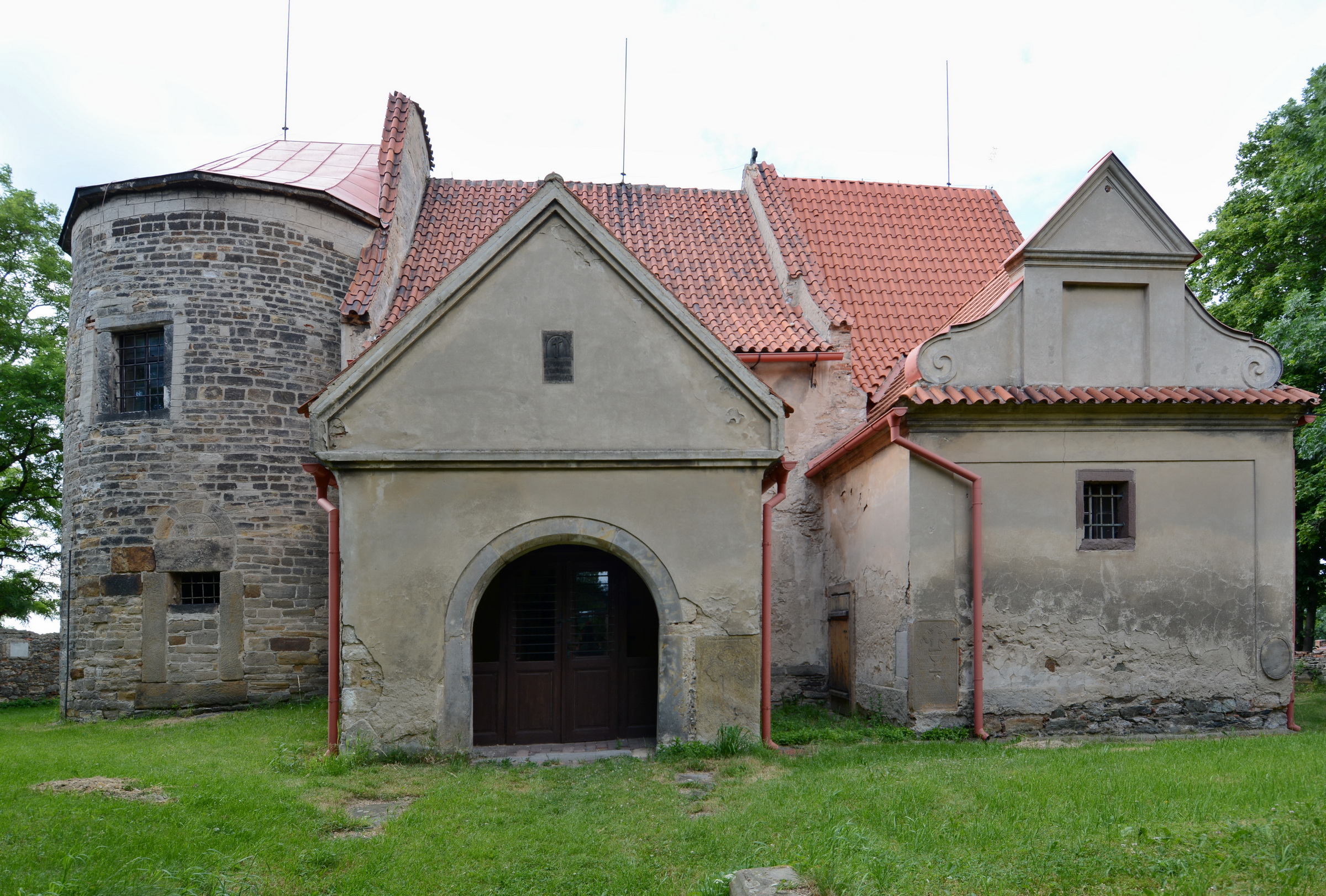 Church of Saint George in Hradešín, Kolín District, the Czech Republic.